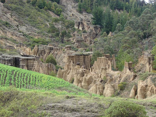 Candelaria Desert